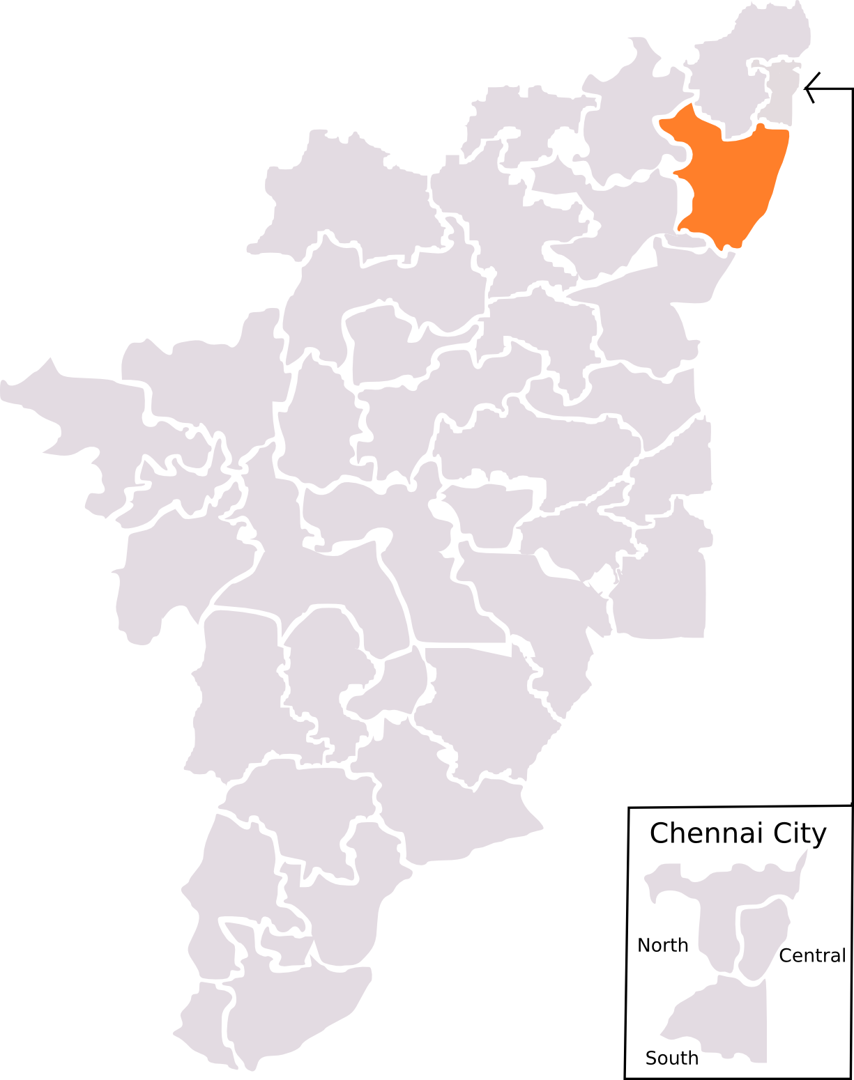 Lok Sabha Election map for Tamil Nadu that illustrates constituencies put in place by 1971 delimitation that was replaced in 2008. Map is based on ECI drawn map.